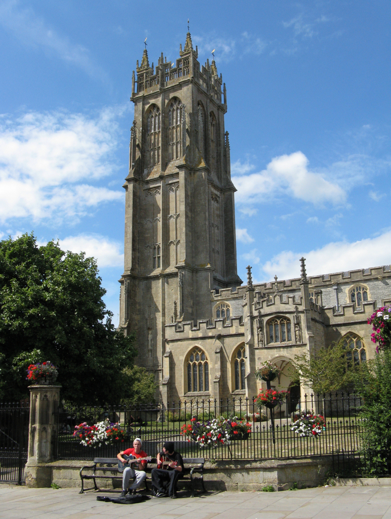 St John the Baptist - the parish church of Glastonbury.